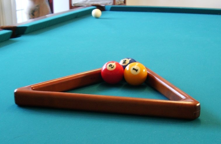 Racking up a game of three-ball, in triangle formation, using the standard large triangle rack more commonly used for eight-ball and straight pool. In this example, the 2 ball is on the foot spot. (This is the cropped version; for the more expansive-view version, see below.)